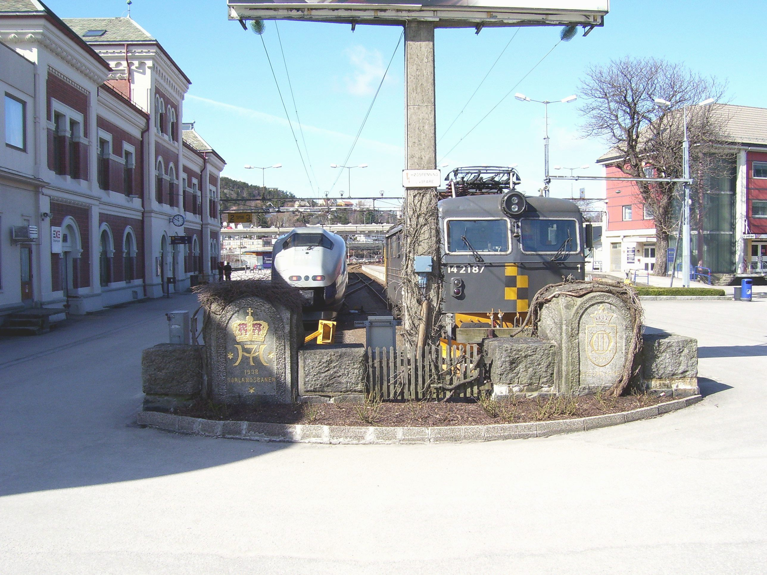 Kristiansand railway station in Norway